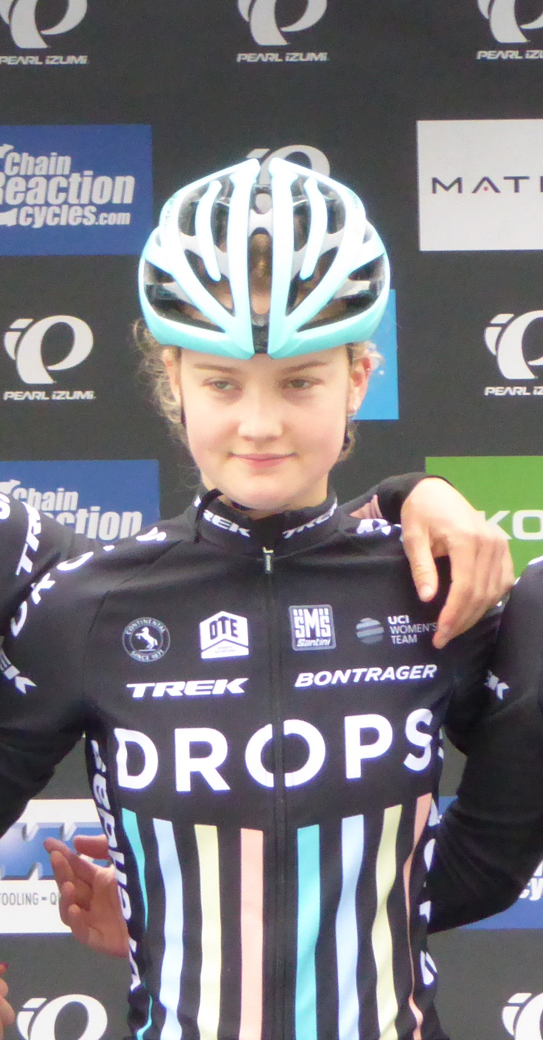 Abi Van Twisk (Drops), prior to Round 1 of the Matrix Fitness GP Series in Motherwell, on 17 May 2016